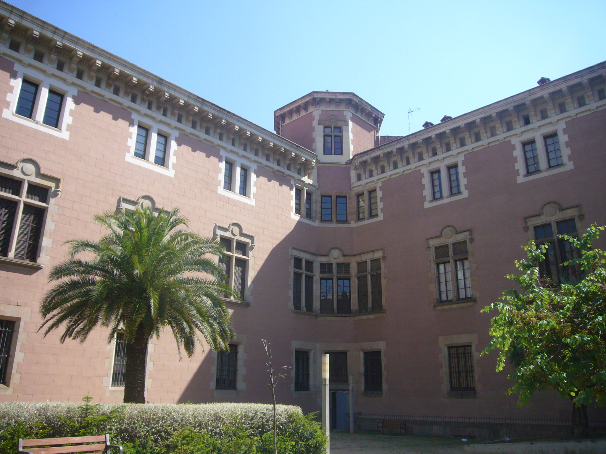 Building "Seminari Conciliar de Barcelona"